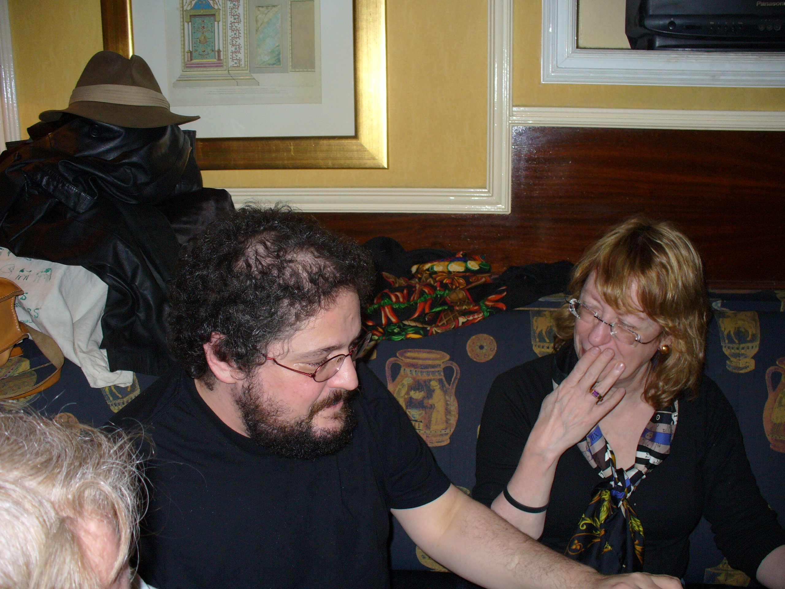 Into reading an outstanding example of English As She Is Spoke